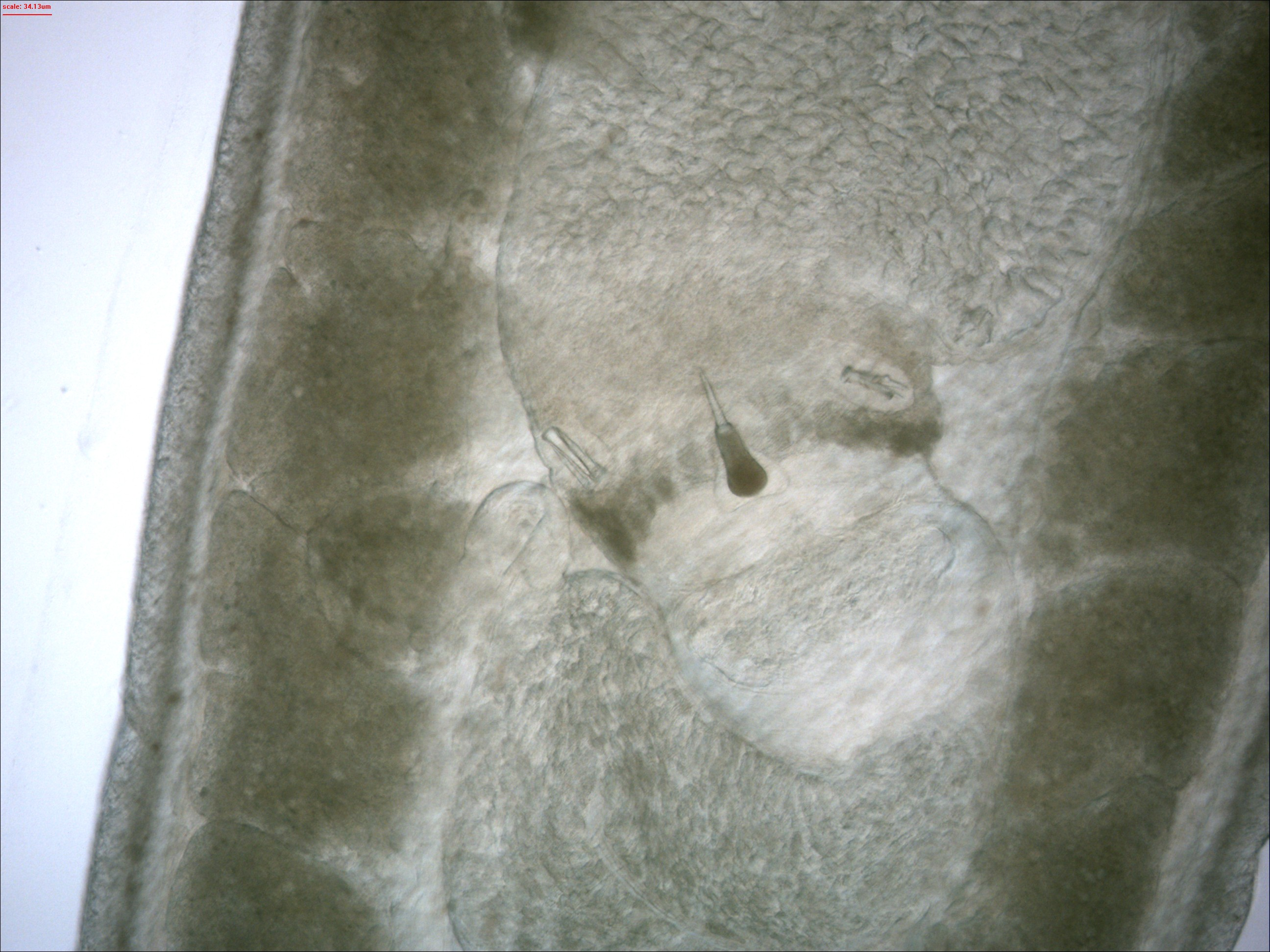 Microphotogaph of Amphiporus ochraceus (Nemertea: Enopla: Hoplonemertea). Stylet-containing part of worm's proboscis shown.